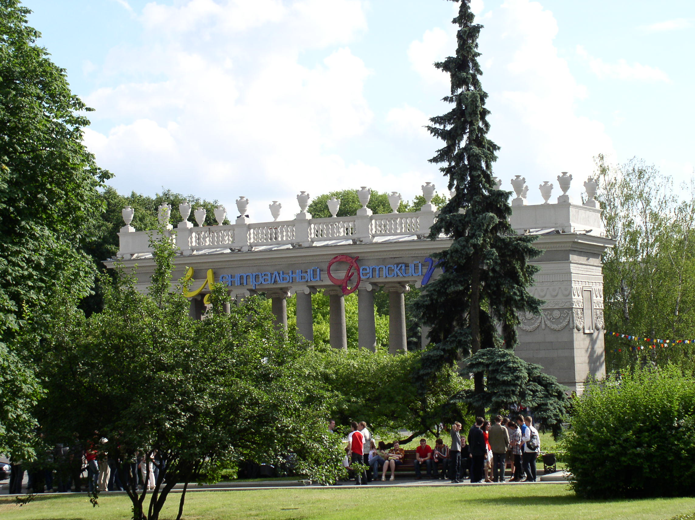 Entrance to Central Children Park named after Maxim Gorky, Minsk, Belarus.